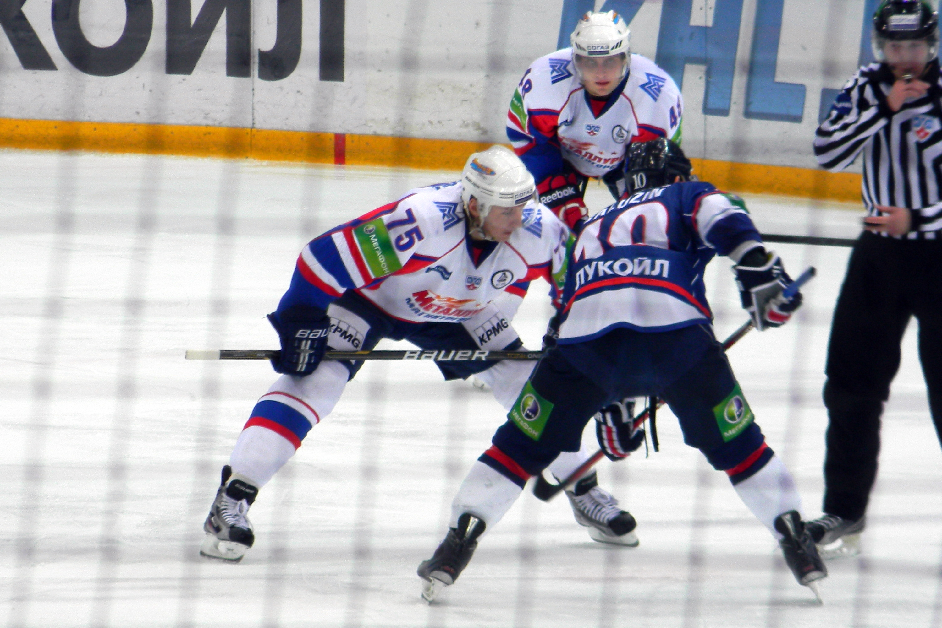 Mikhail Yakubov (white, 75) and Vladimir Galuzin (blue, 10) at faceoff during the game betwee Torpedo Nizhny novgorod and Metallurd Magnitogorsk on 16th January, 2012